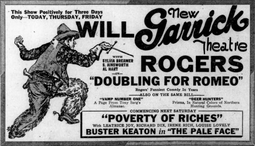 Newspaper advertisement for the American comedy film Doubling for Romeo (1921), on page 2 of the January 25, 1922 Duluth Herald.